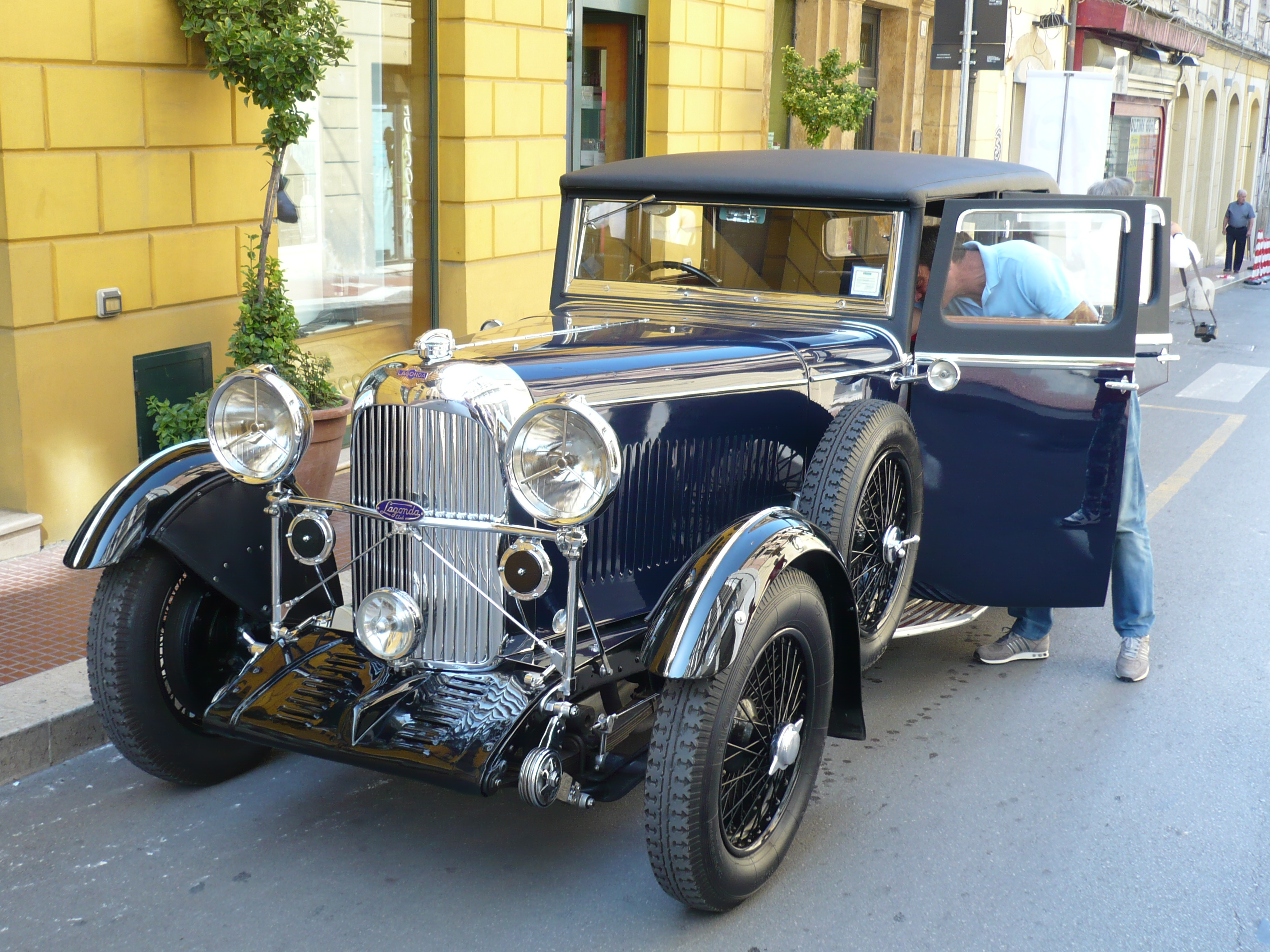 16 80 Lagonda sedan bodied Weimann, produced in 1928 with a first registration in 1932, after registered in Italy in 1967. Cars registered to ASI n.0574 in 1971. Engine 6 cylinder in-line engine capacity of 2,000; caratteristic "biker" fenders.